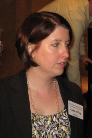 Clara Jeffery with Mother Jones in the center fielding up close questions after the panel.